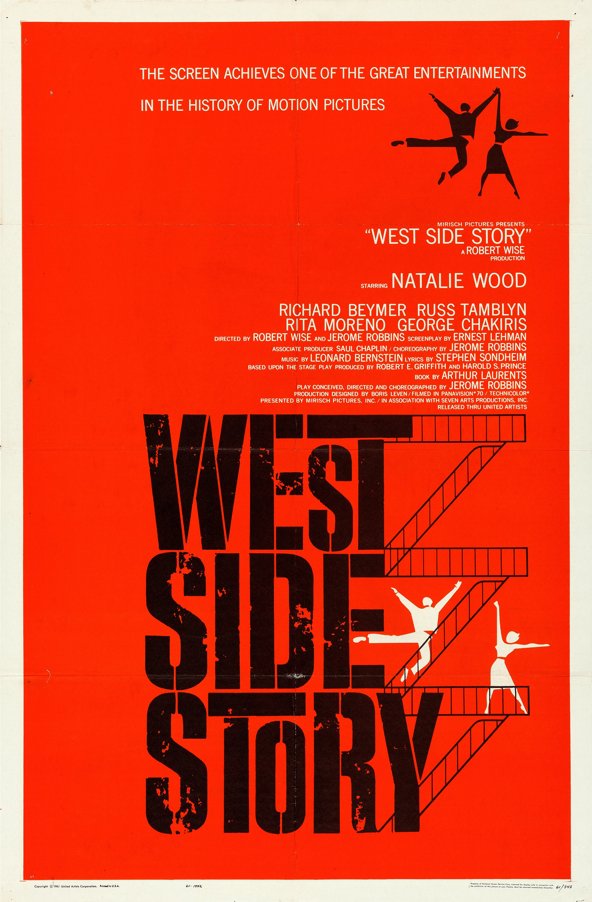 Theatrical poster for the American release of the 1961 film West Side Story, based on the musical of the same name.